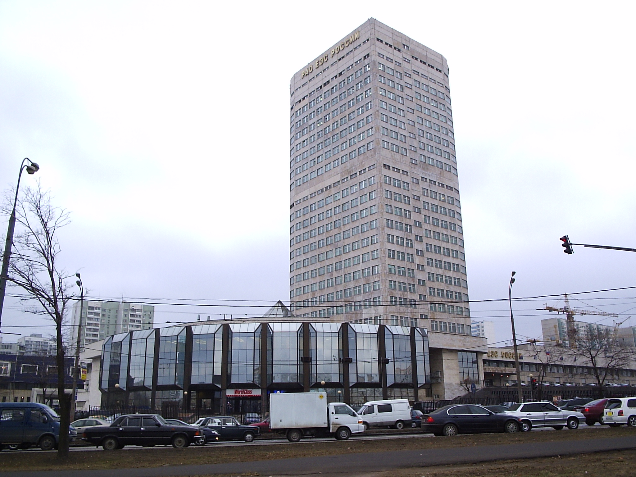 Building of Unified Energy Systems of Russia (RAO UES) in Moscow.